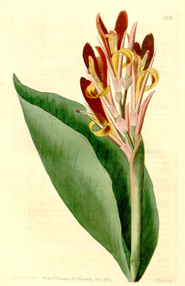 Illustration of Canna indica (Syn. Canna edulis)